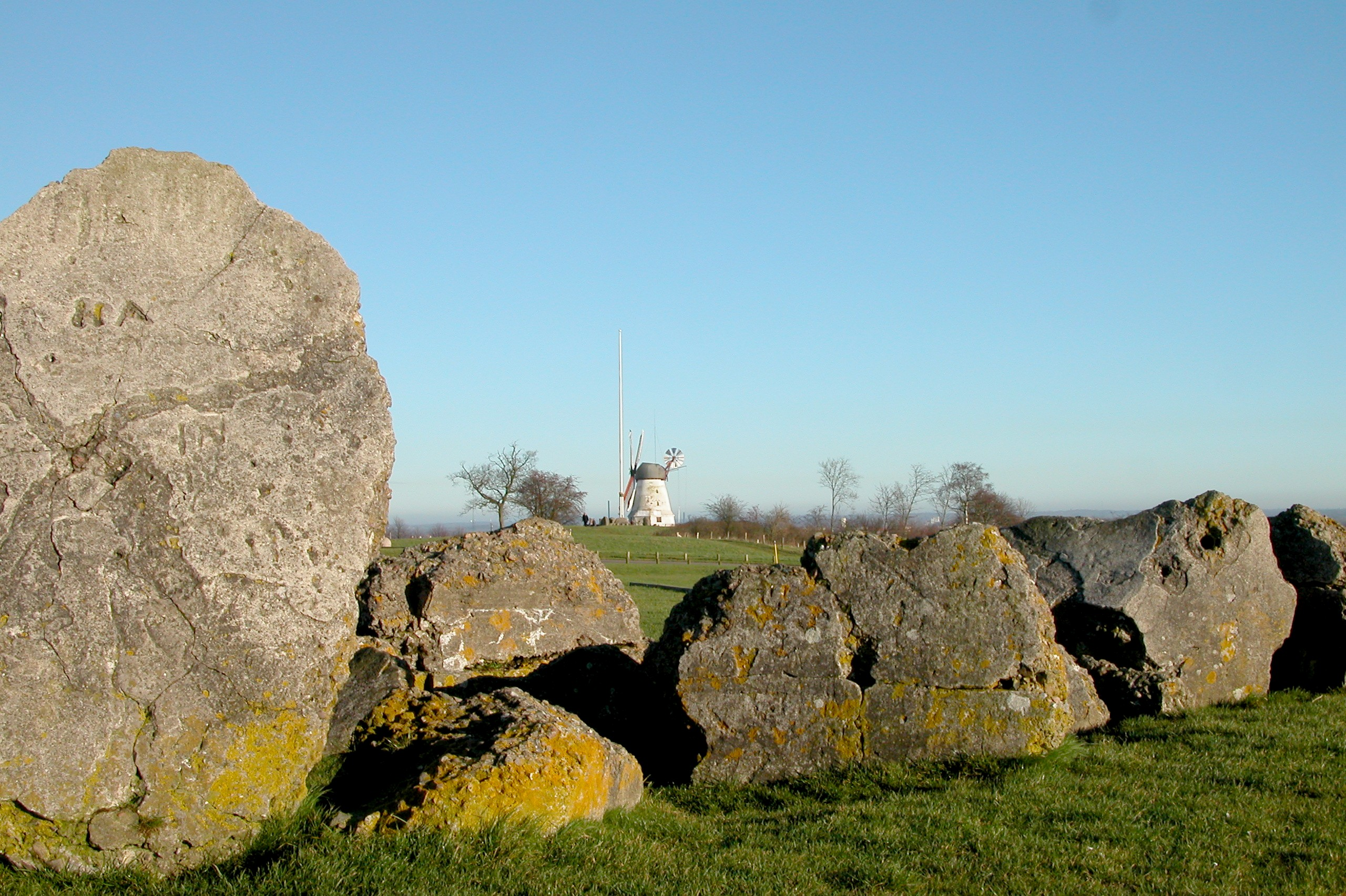 Dybbøl Banke, Sonderburg, Denmark.